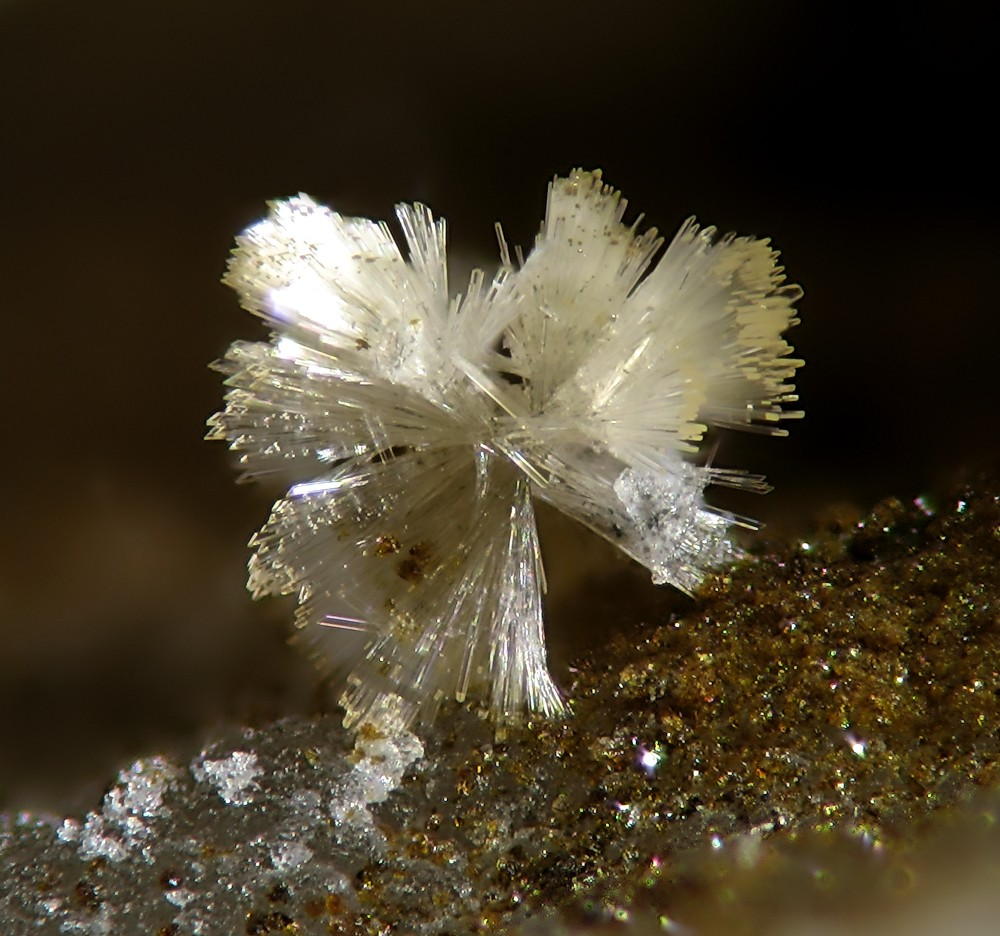 Calcioferrite Locality: Hagendorf South Pegmatite (Cornelia Mine; Hagendorf South Open Cut), Hagendorf, Waidhaus, Vohenstrauß, Oberpfälzer Wald, Upper Palatinate, Bavaria, Germany (Locality at ) Picture width 1,5 mm. Collection and photo Christian Rewitzer